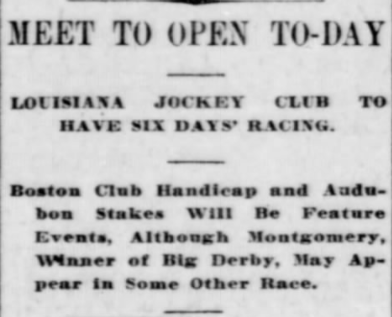 Louisiana Jockey Club's Boston Club Stakes 1907